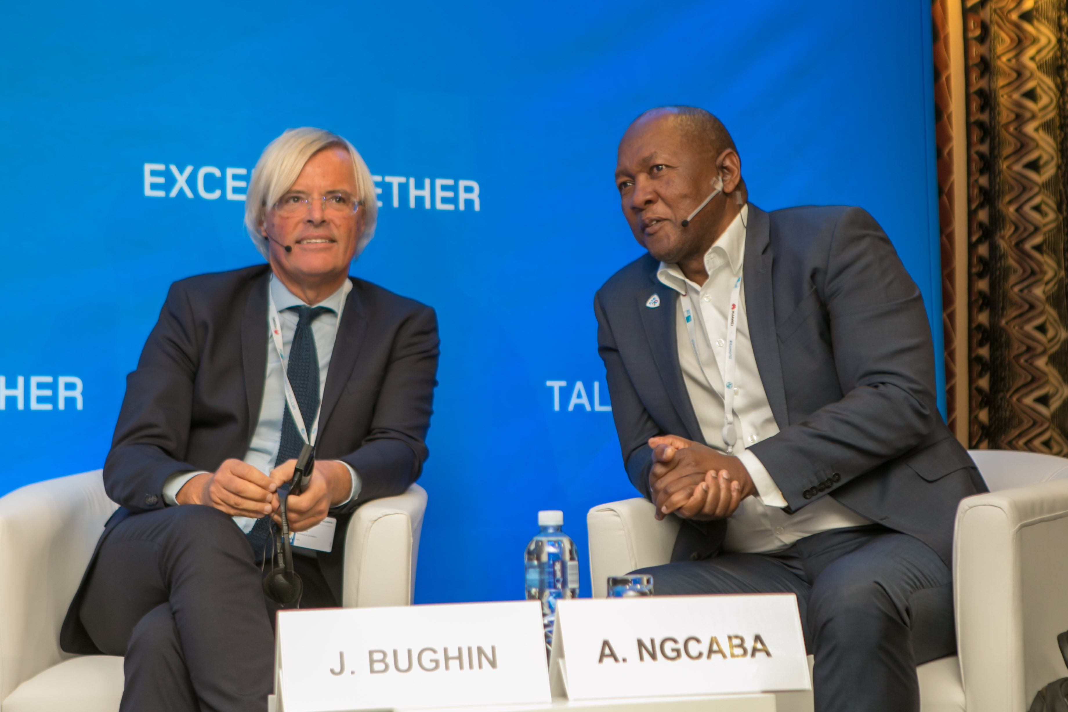 Jacques Bughin & Andile Ngcaba - ITU Telecom World 2018 © ITU/R.Farrell